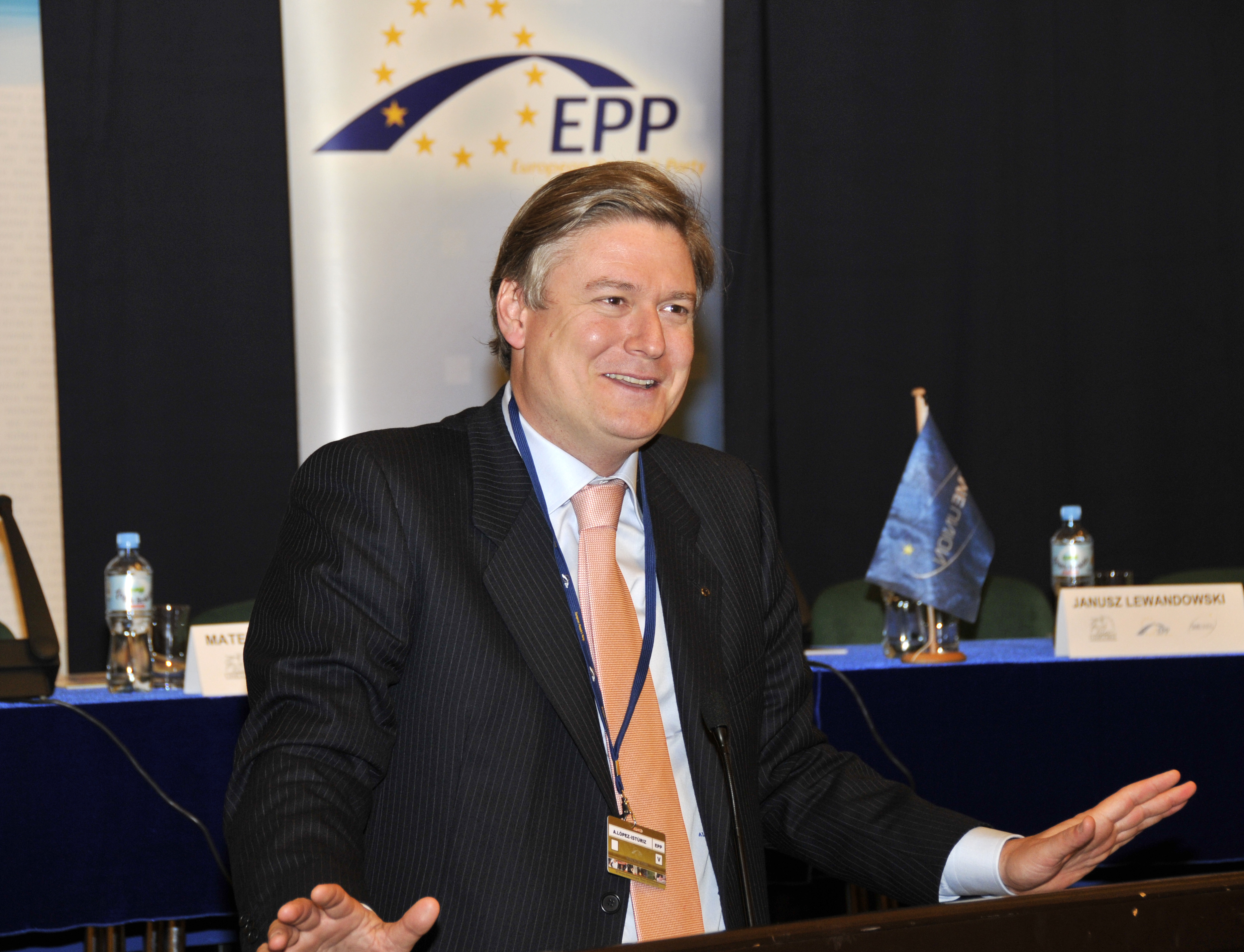 EPP Congress Warsaw